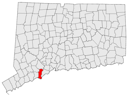 Locator map for Stratford, Connecticut